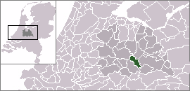 Location of Bunnik in the Netherlands.